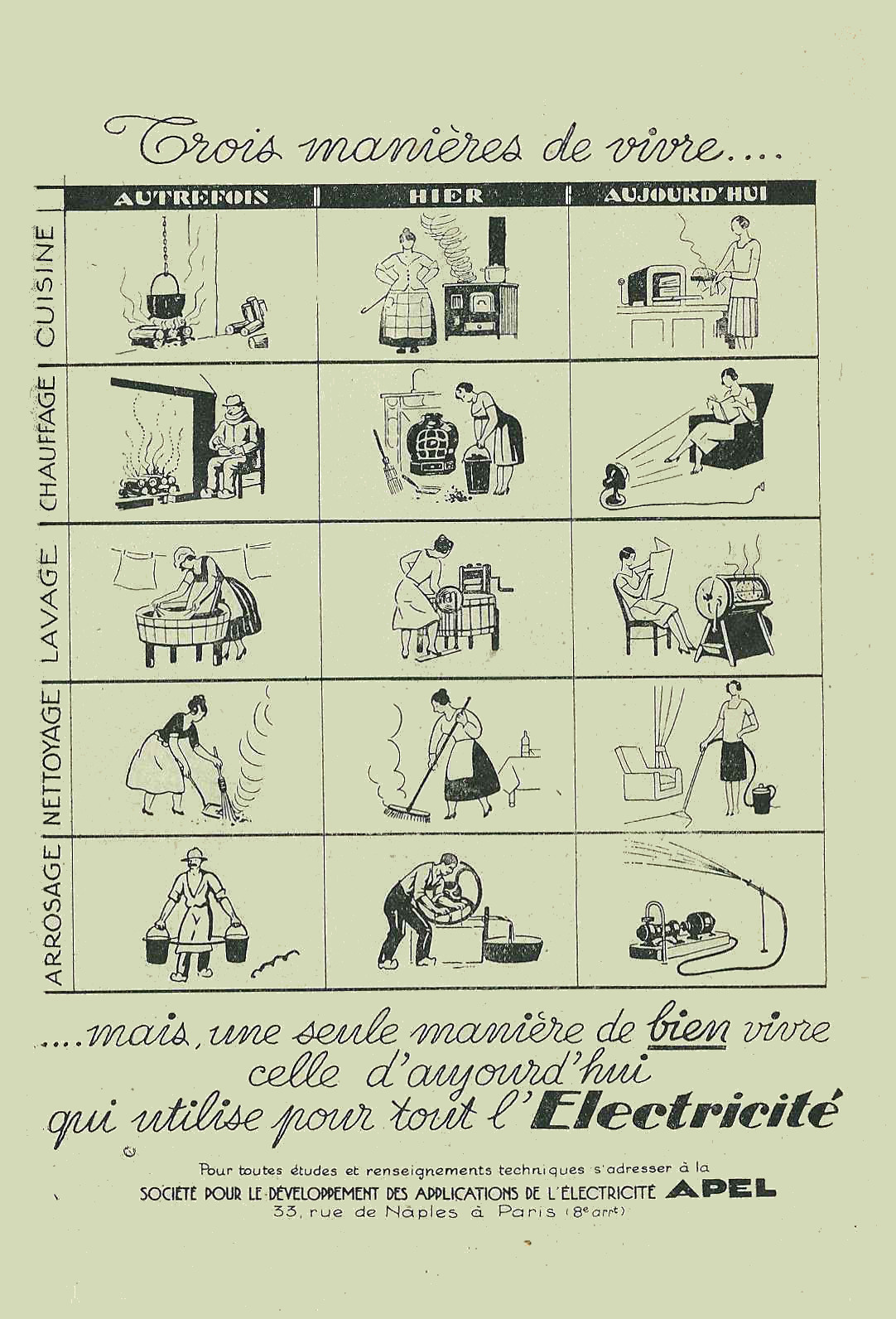 French electricity advocacy poster showing "Three ways to live": Traditional peasant/servant lifestyle on left, ca. 1900 domesticity in center, and 1920s luxurious electric lifestyle at right